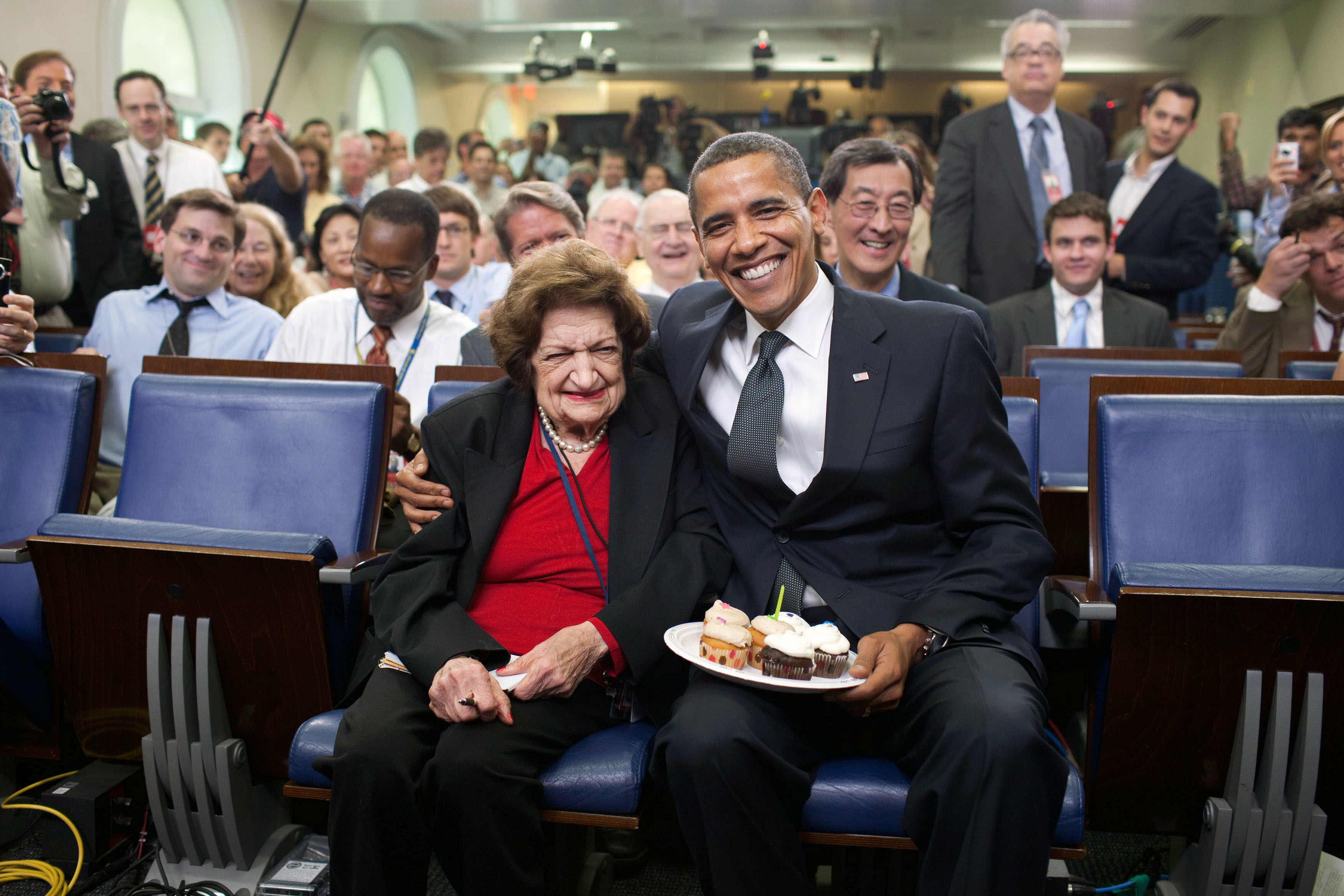 President Barack Obama presents cupcakes with a candle to Hearst White House columnist Helen Thomas in honor of her birthday in the James Brady Briefing Room, on Aug. 4, 2009. Thomas, who turned 89, shares the same birthday as the President, who turned 48.